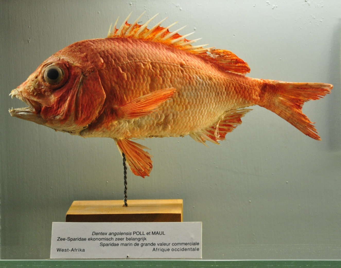 Dentex angolensis (Sparidae, Perciformes); a fish from a family commonly called sea breams or porgies. The specimen is from a Belgian scientific collection.